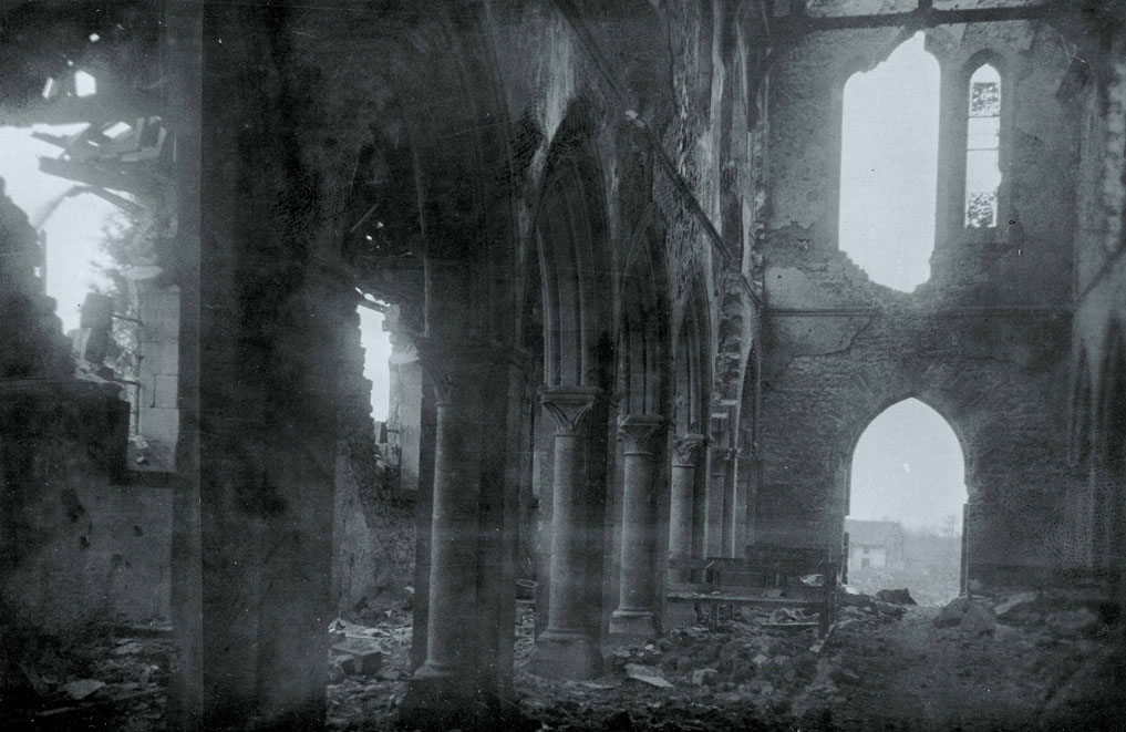 Late Church of Binarviolle, Marne, France